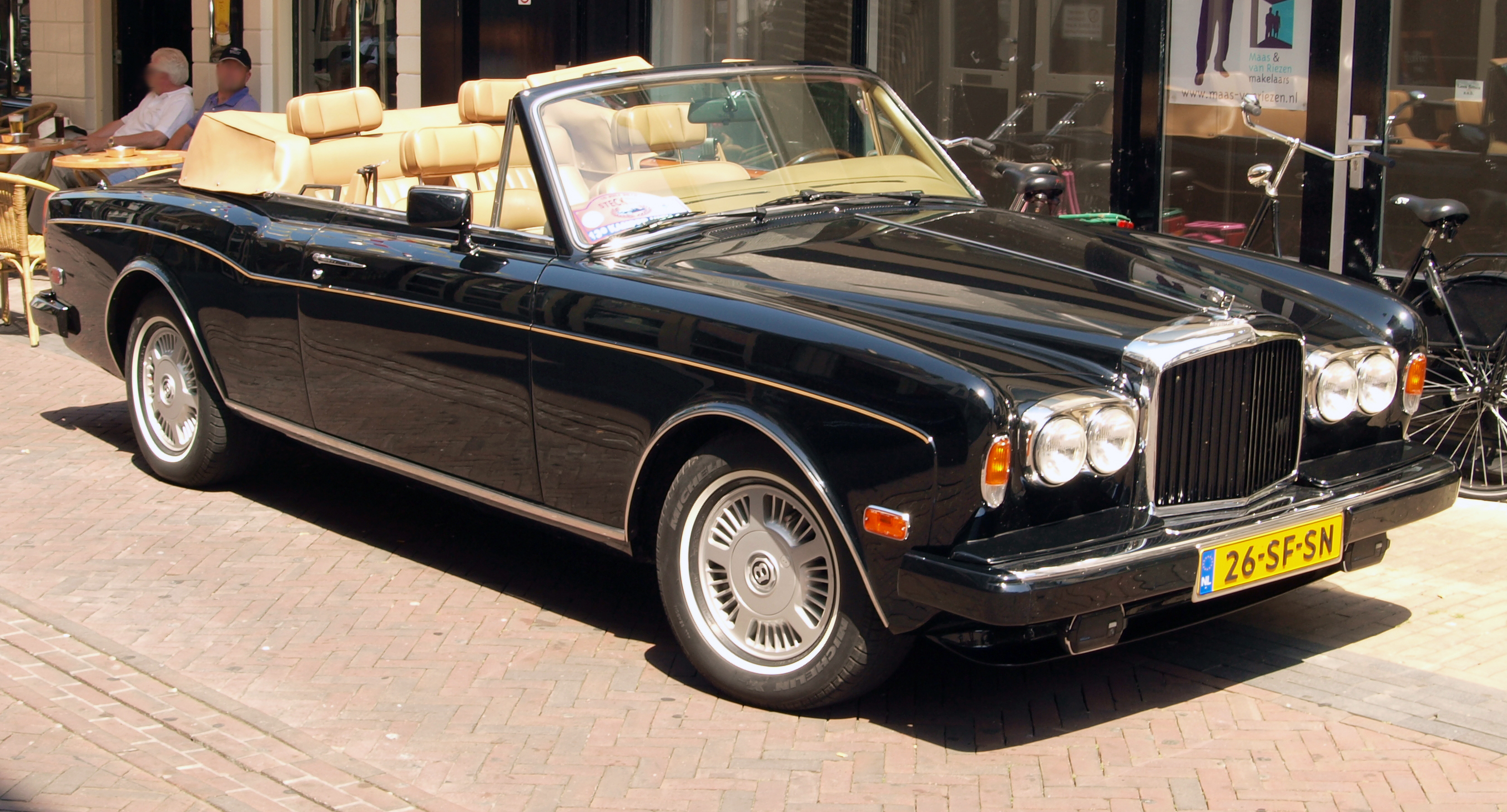 Photographed at Kampen, The Netherlands. OLYMPUS DIGITAL CAMERA